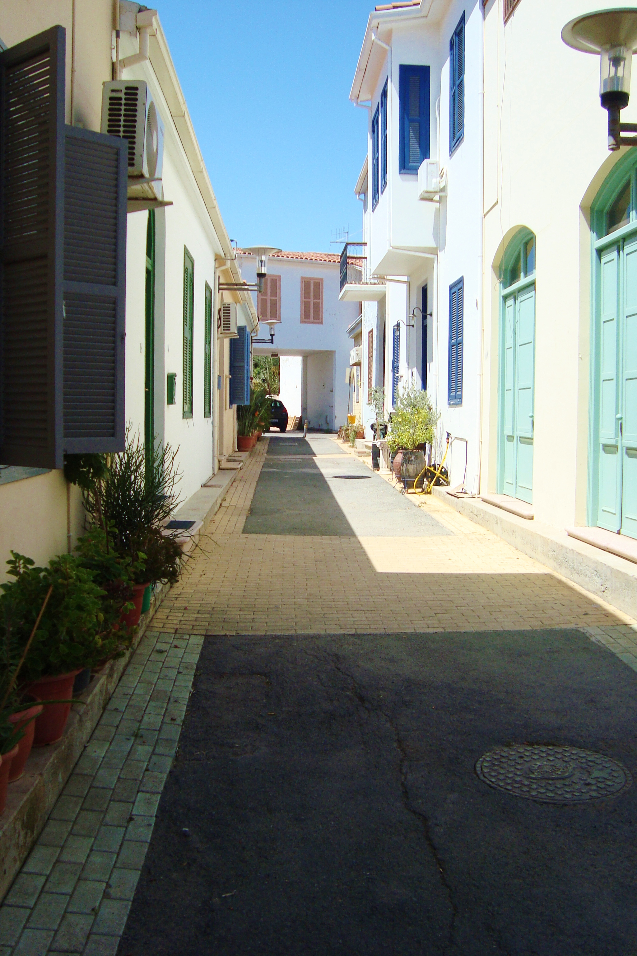 Picturised old traditional houses in Nicosia old quarters Nicosia Republic of Cyprus 5.jpg